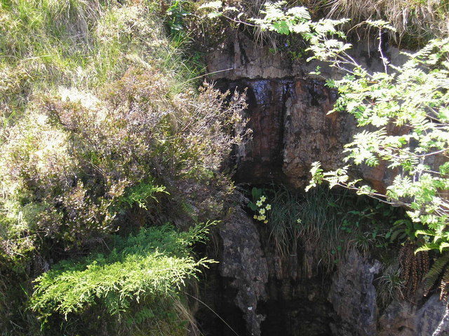 Primroses down a pothole. These primroses are growing down Juniper Gulf. There are others further down but poor light and personal safety prevented photographing them. This pothole is in the middle of a moor (The Allotment) where the vegetation is mainly very rough grass and bog cotton. The exceptions are found in the mouths of potholes where the drainage is better and sheep cannot reach them without falling down the hole (which some do).